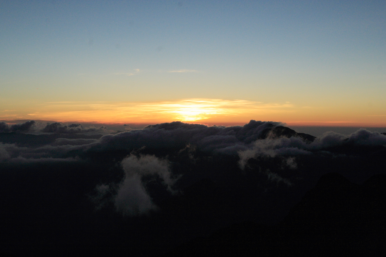 Sun Rise at Yushan. 客家語/Hak-kâ-ngî: Ngiu̍k-Sân Ngit-tshut.